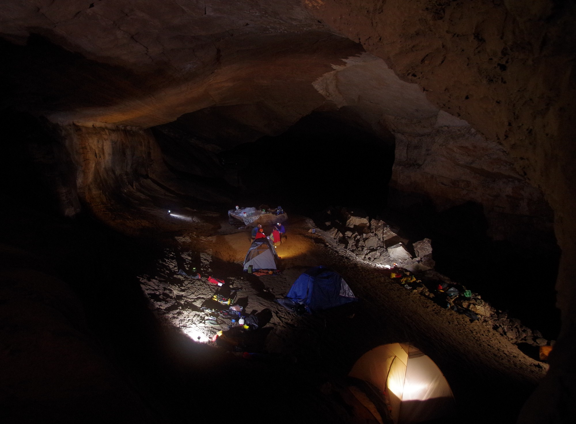 Base camp inside the cave.